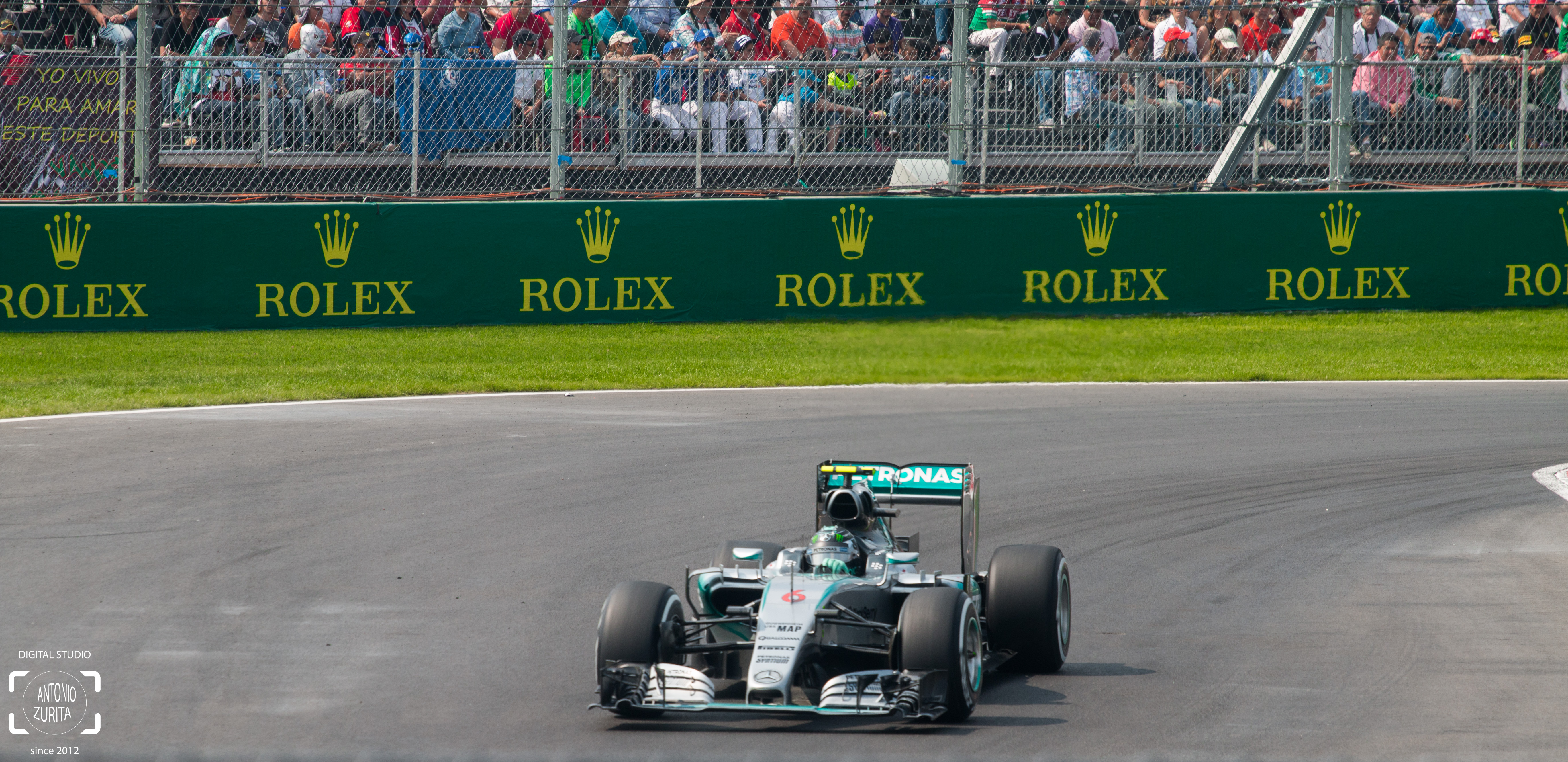 Nico Rosberg at the 2015 Mexican Grand Prix